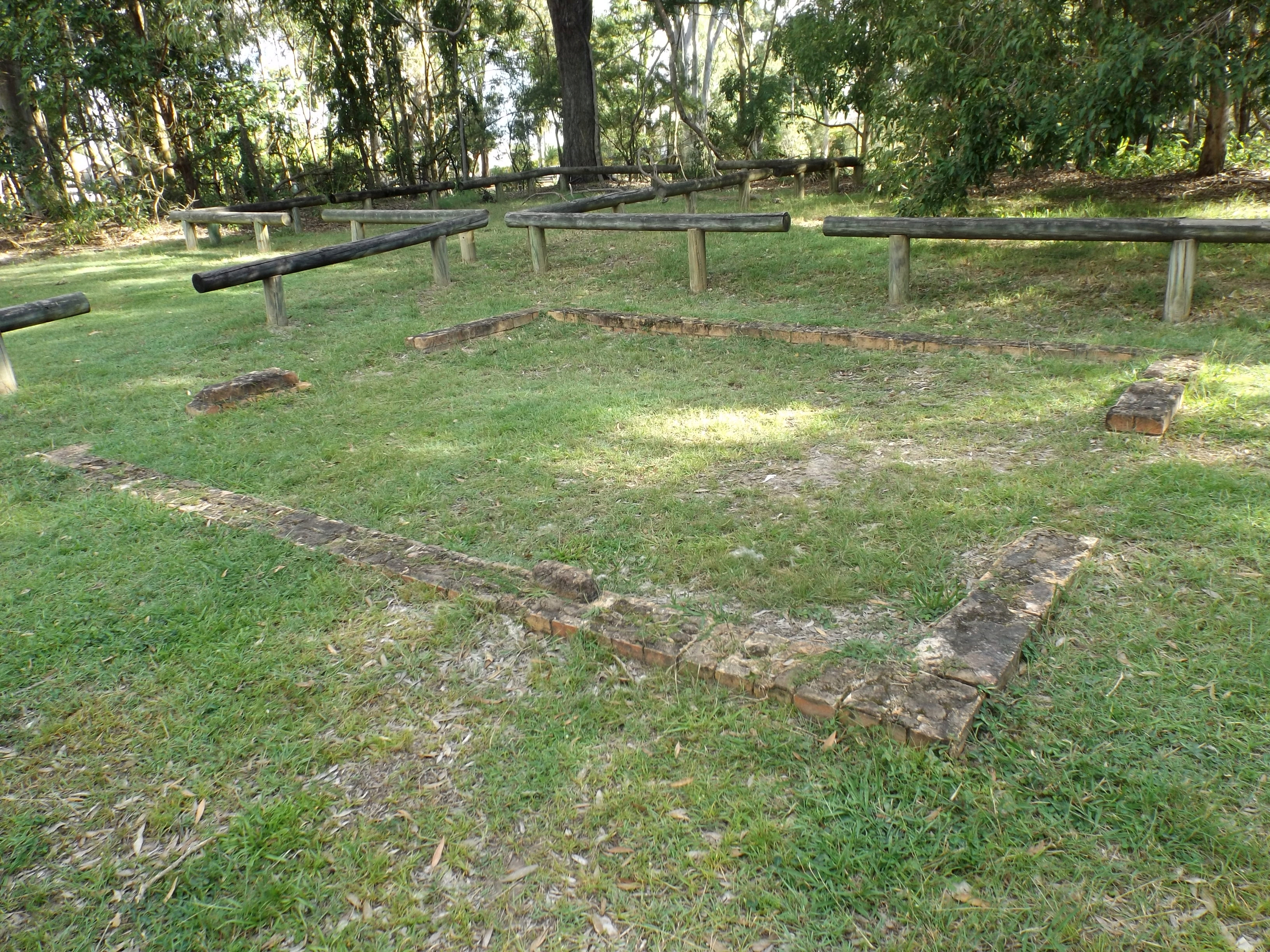 Photo of the remains of the Ormiston Fellmongery at Orminston Park, Ormiston, City of Redlands, Queensland, Australia.